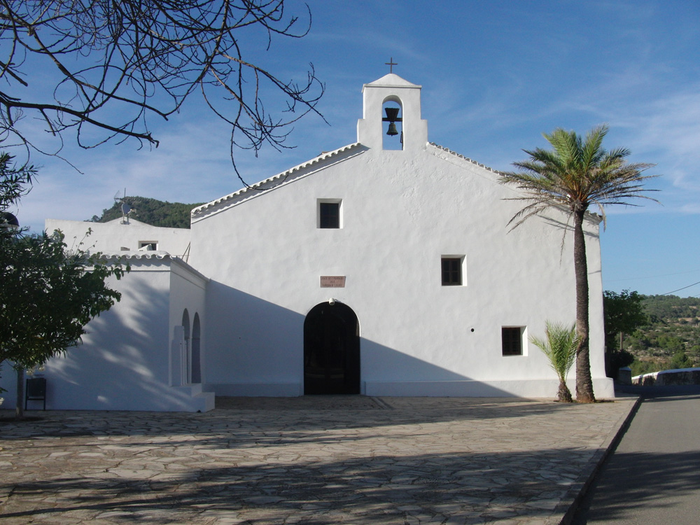 Church of San Vicente, Ibiza, Spain